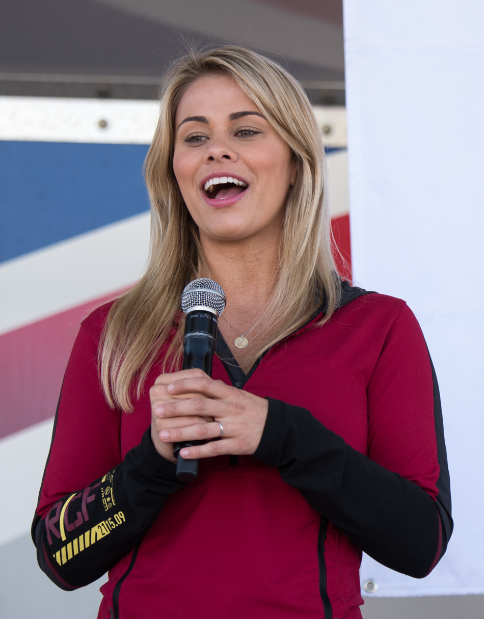 Paige VanZant visits troops at Rota Naval Station, Spain; the seventh stop on the annual Vice Chairman’s USO Tour, April 28, 2018. (DoD Photo by U.S. Army Sgt. James K. McCann)